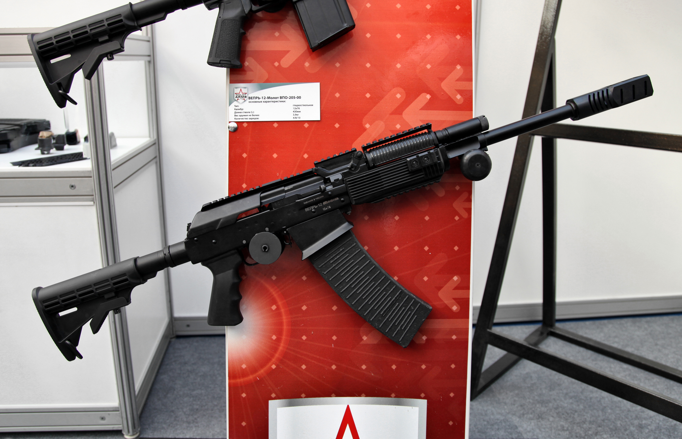 12x76 Vepr-12 Molot VPO-205-00 at ARMS & Hunting 2012